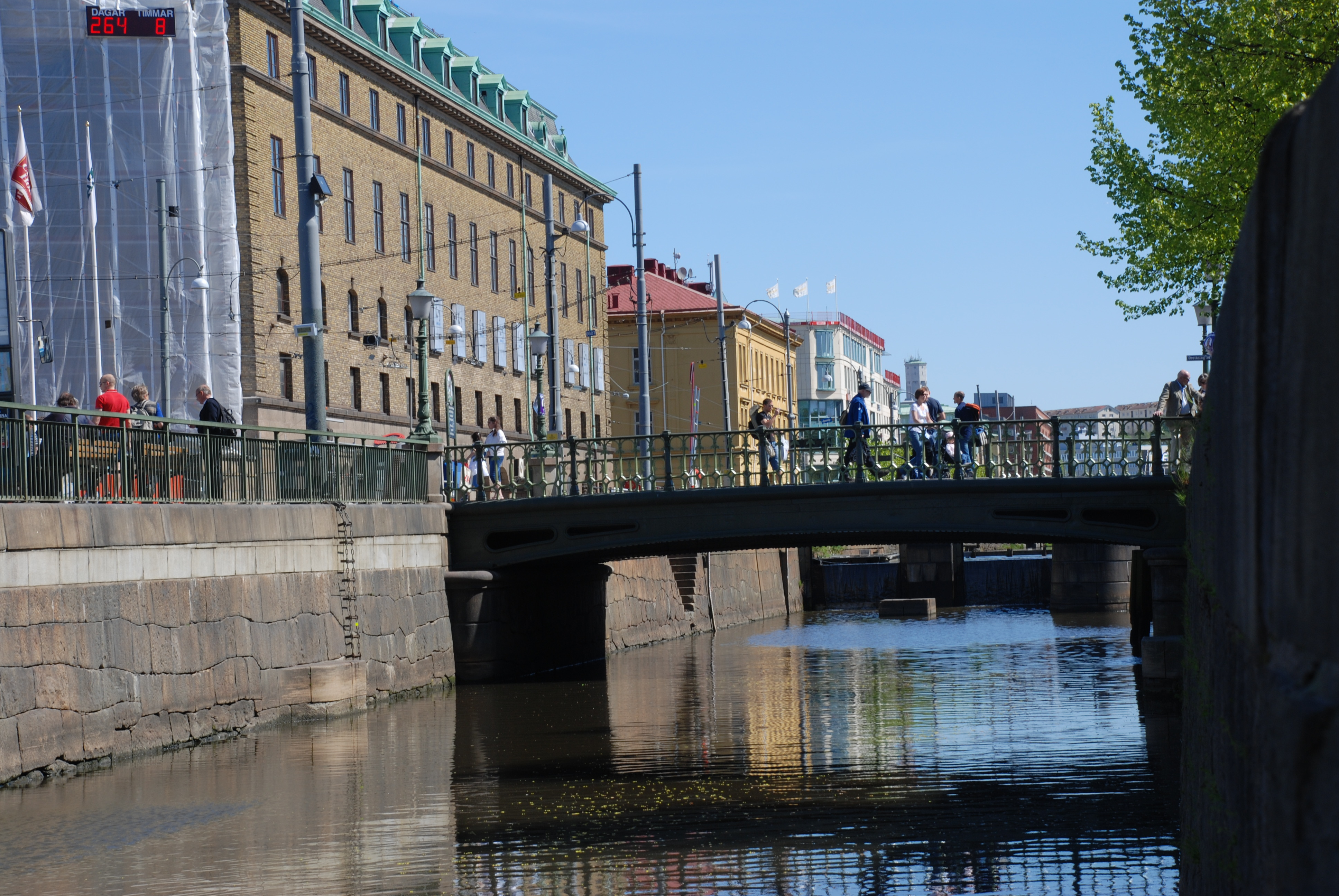 The bridge Drottningtorgsbron at Drottningtorget in Göteborg.